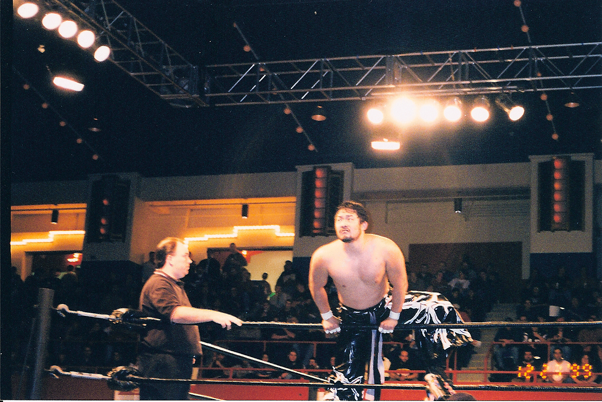 ECW @ Westchester County Center in White Plains, NY TNN TV Taping - 12.23.99